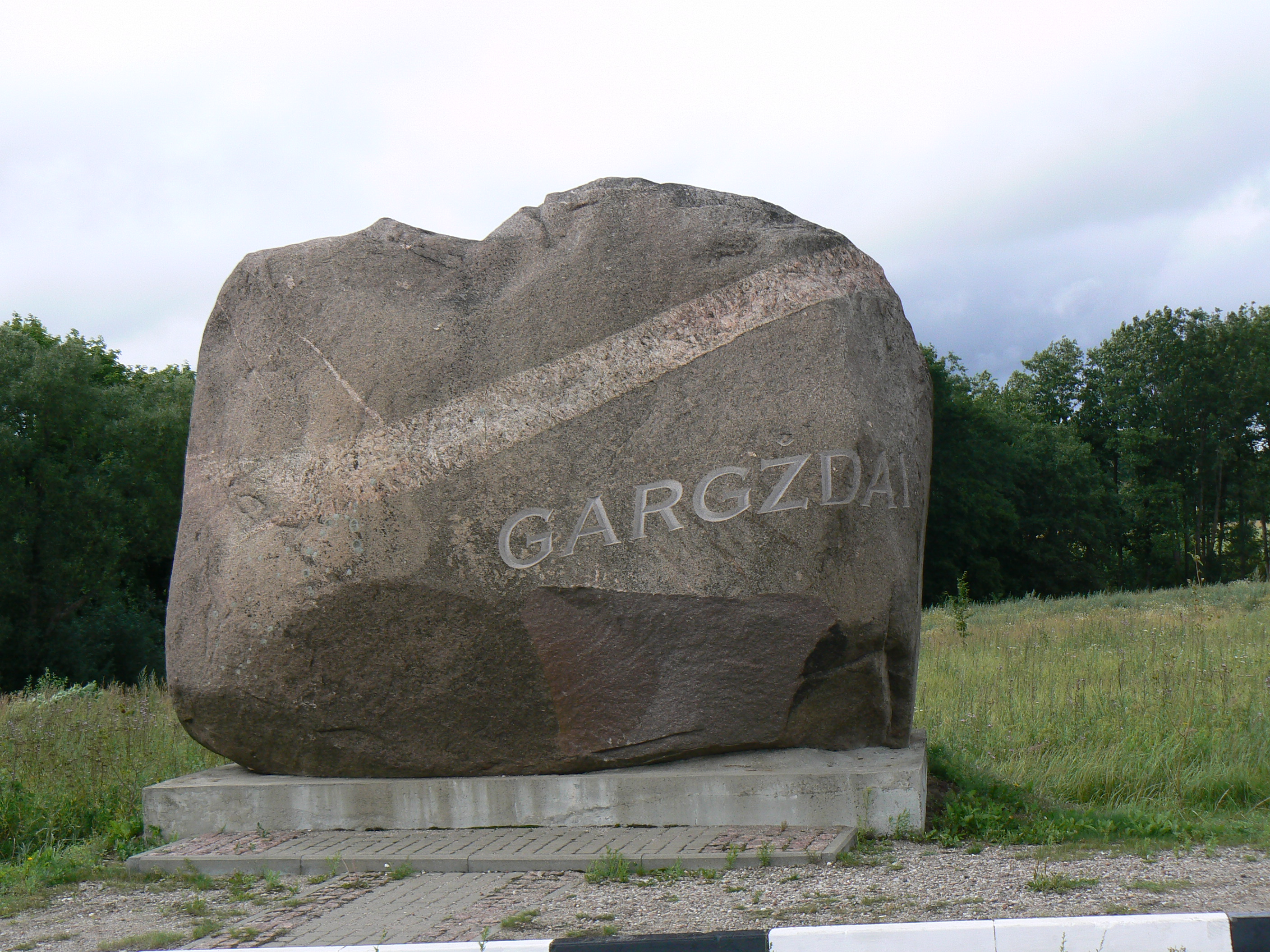 Stone by Gargždai